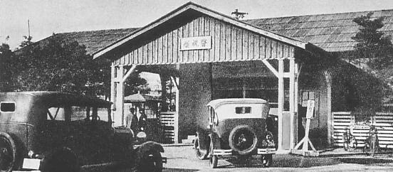 TMPD(Tokyo Metropolitan Police Department) temporary building in 1930